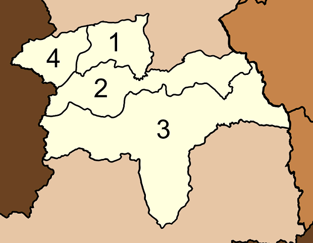 Map of Betong district, Yala province, Thailand, with the communes (tambon) numbered. Than To (ธารโต) Ban Rae (บ้านแหร) Mae Wat (แม่หวาด) Khiri Khet (คีรีเขต)